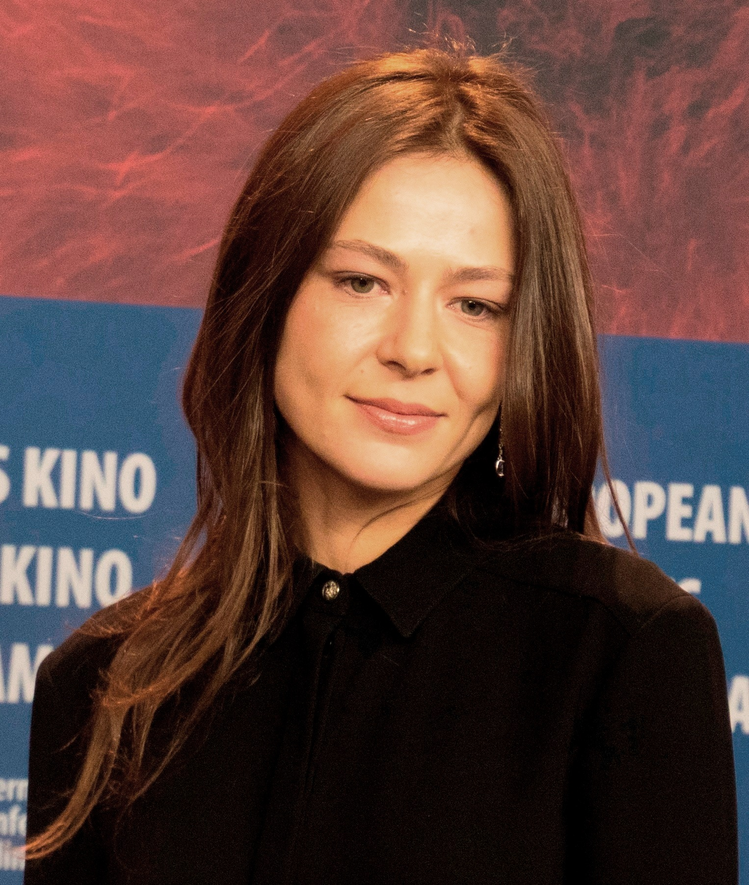 Elena Lyadova at the press conference of Dovlatov at Berlinale 2018.